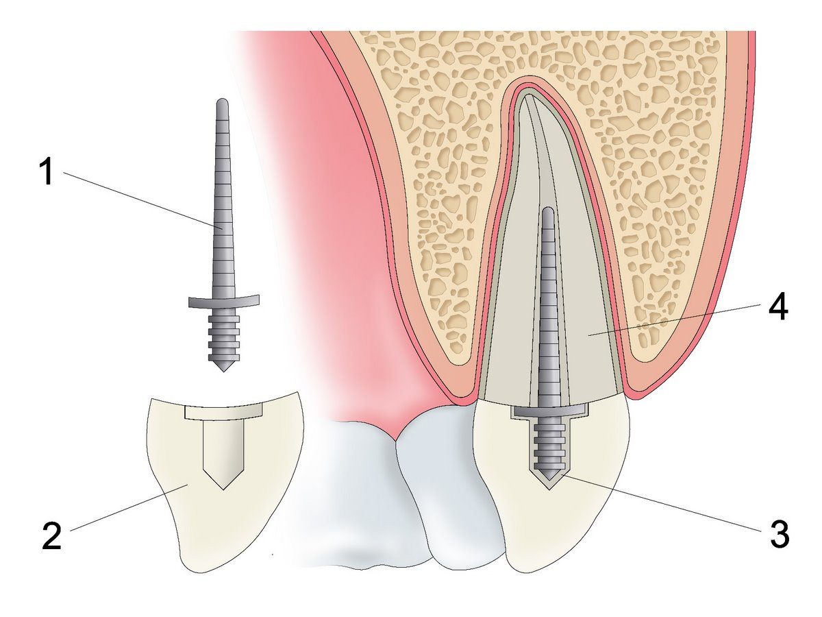 Davis crown (1 - post, 2 - crown, 3 - dental cement, 4 - root)